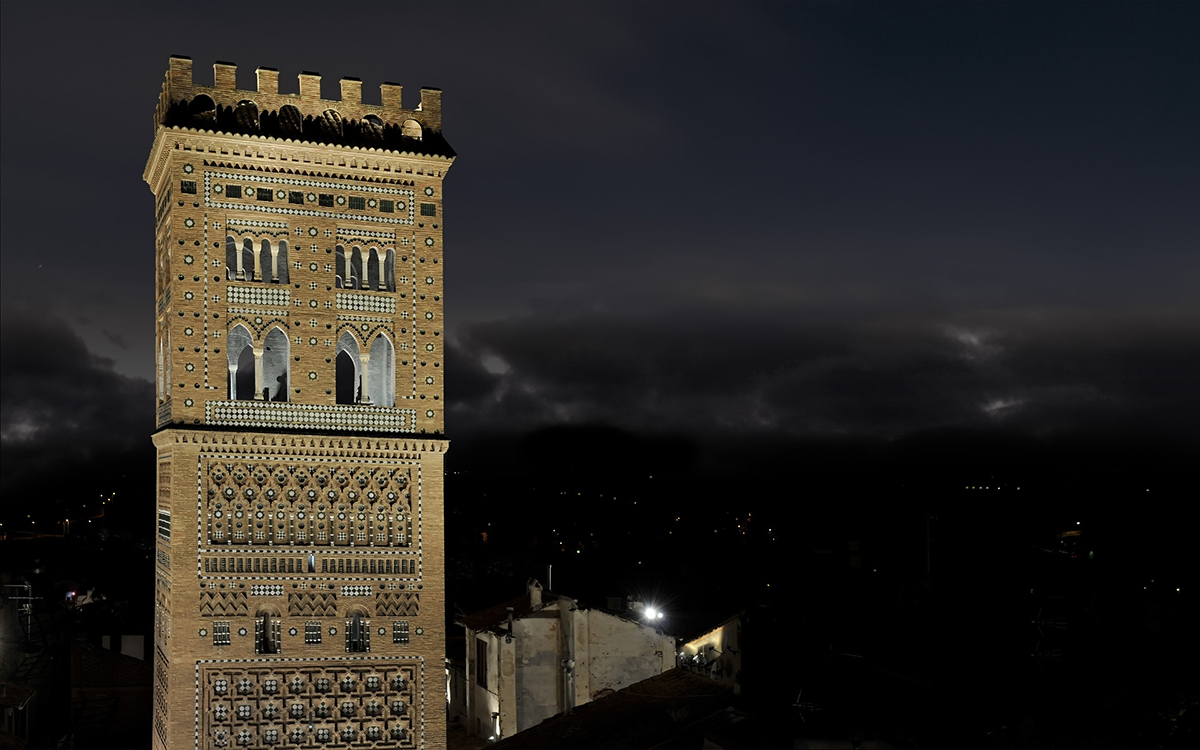 Torre mudéjar de El Salvador. Teruel